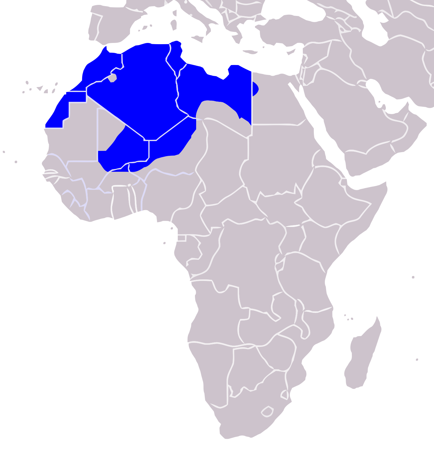 The Berber World or Tamazgha. Map of the Land of the Berber people of North Africa.